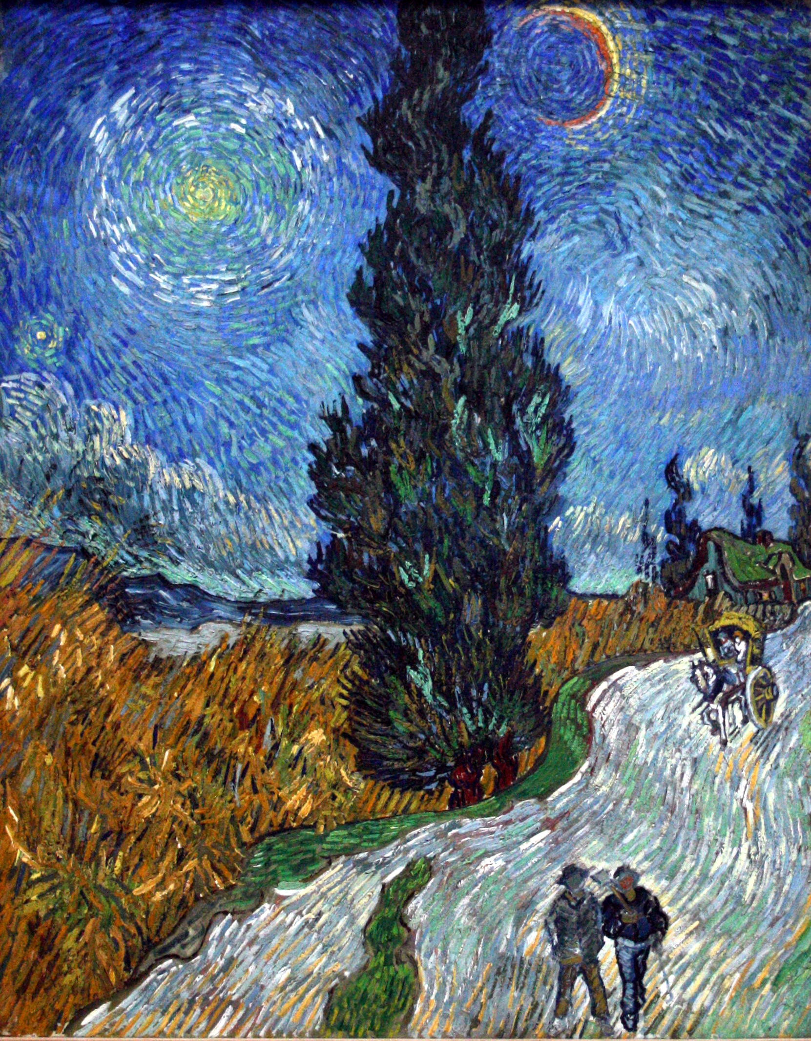 Saint-Rémy - Road with Cypress and Star